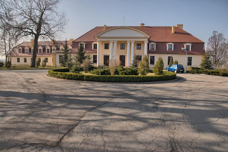 Ludzisko dwór Ludzickich